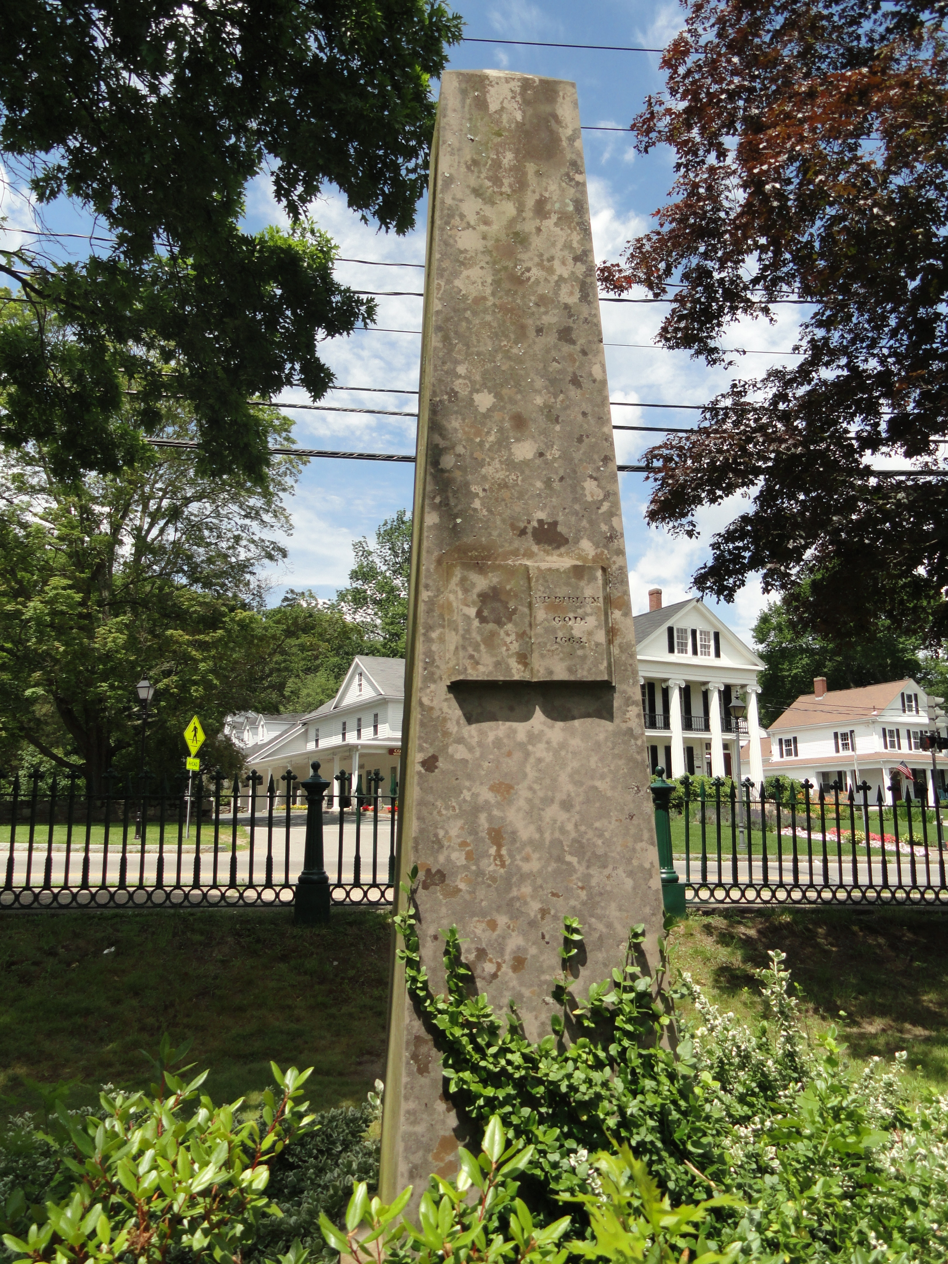 John Eliot monument, on the grounds of the Bacon Free Library, 58 Eliot Street, South Natick, Massachusetts, USA.